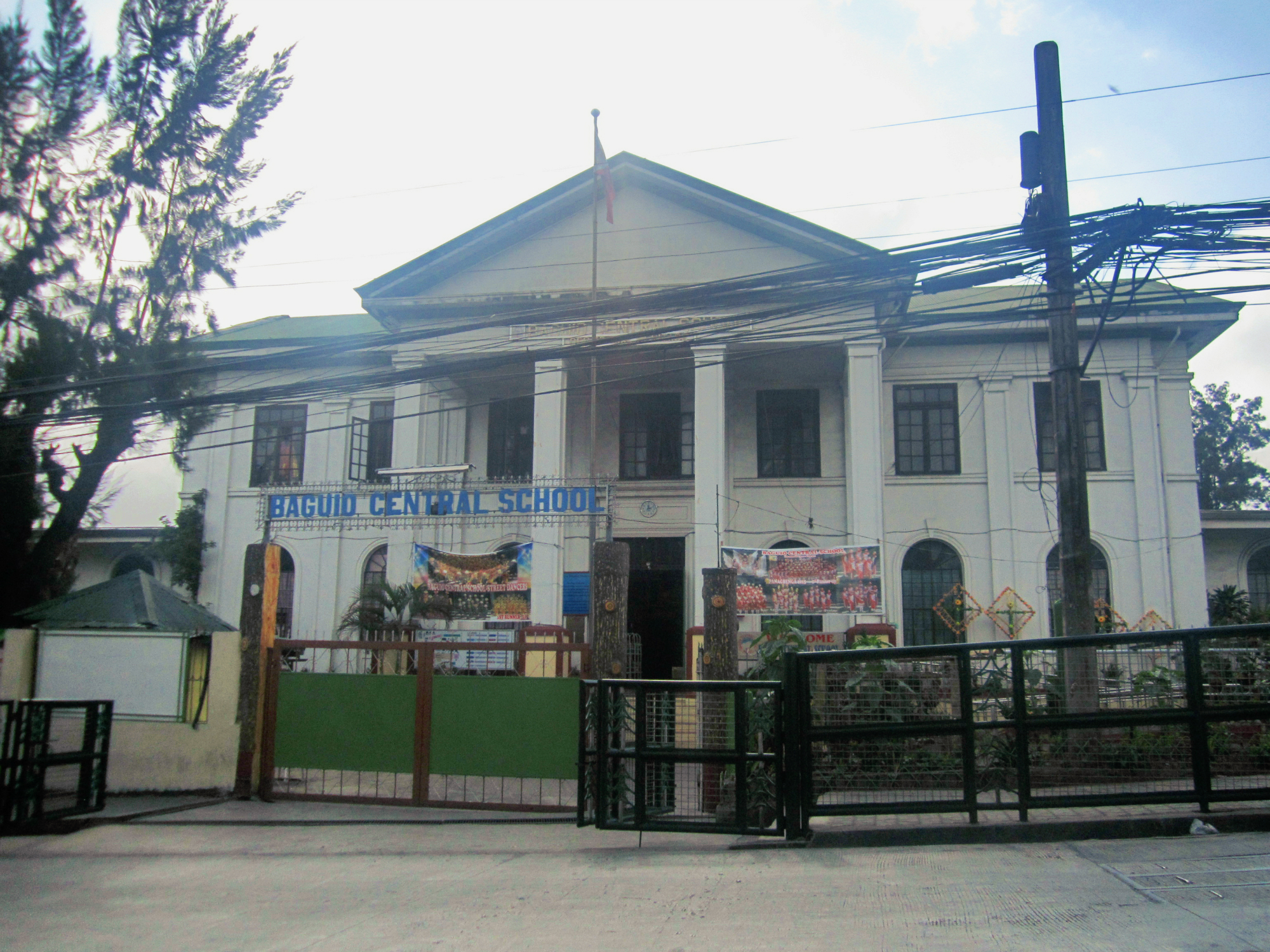 Baguio Central School was the house of Mateo Cariño, one of the founding fathers of Baguio.